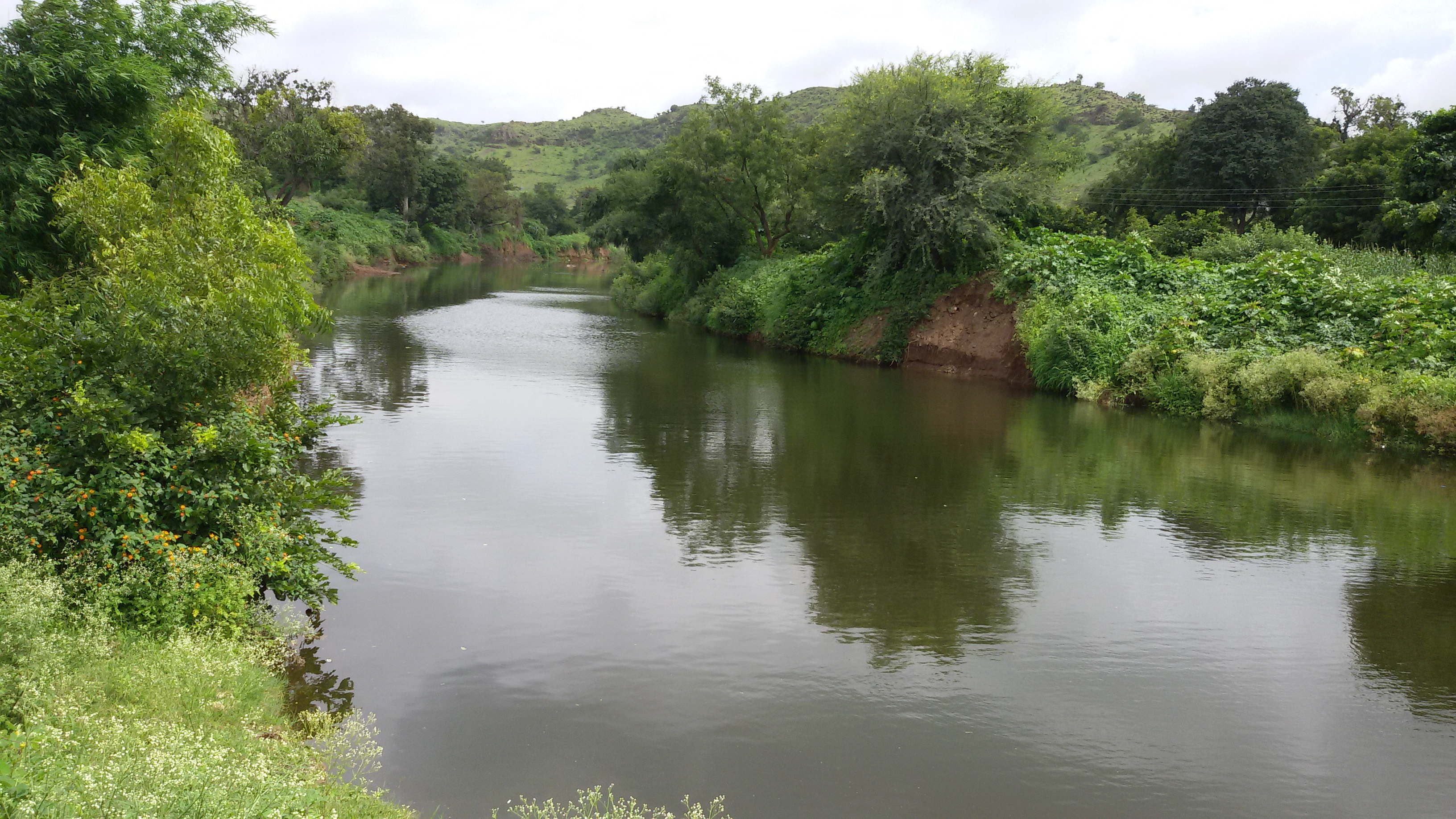 A percolation tank fully filled after cleaning of silt at Malawadi in Satara district of Maharashtra.